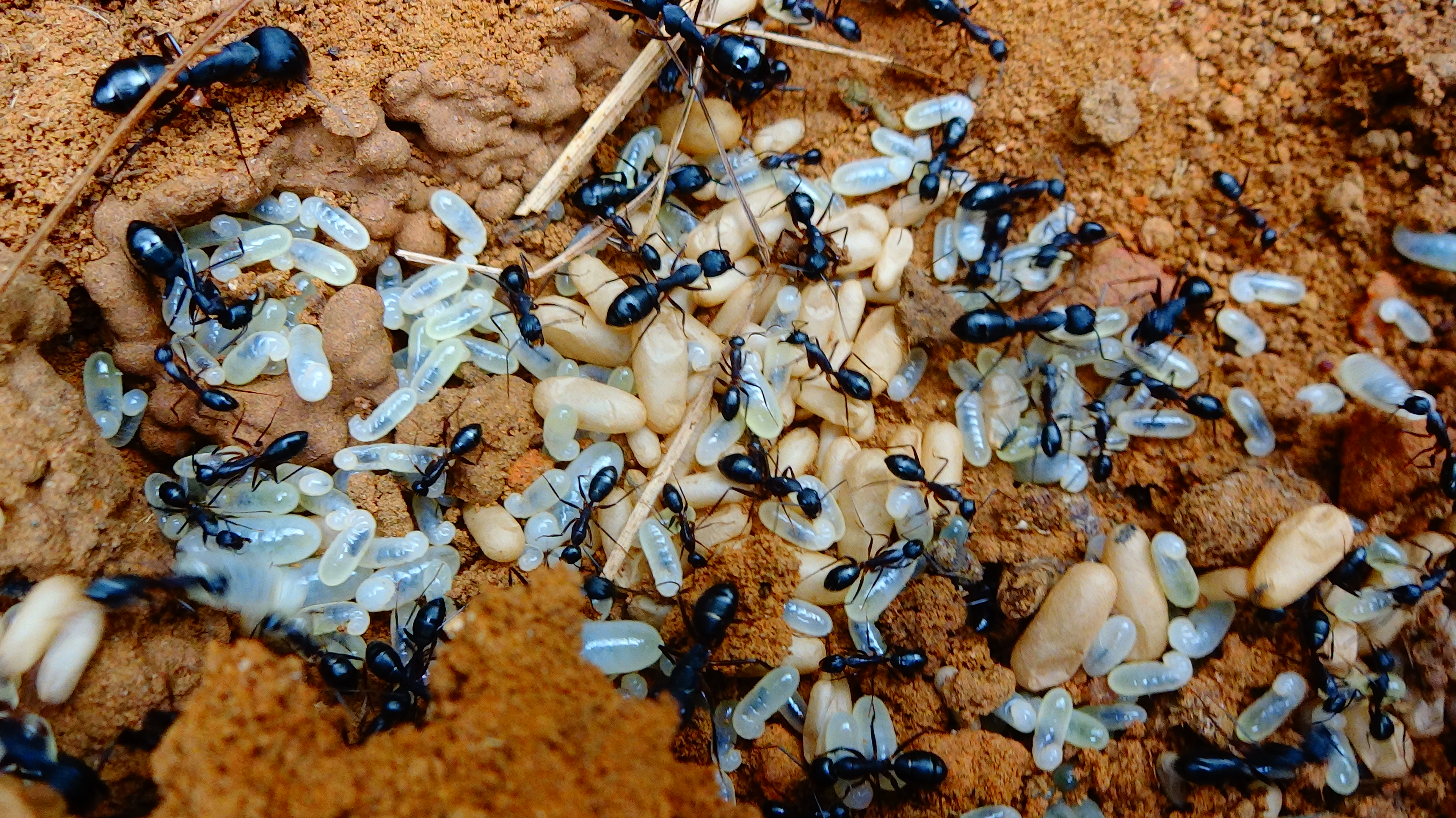 Camponotus ant nests in Sanjay Van